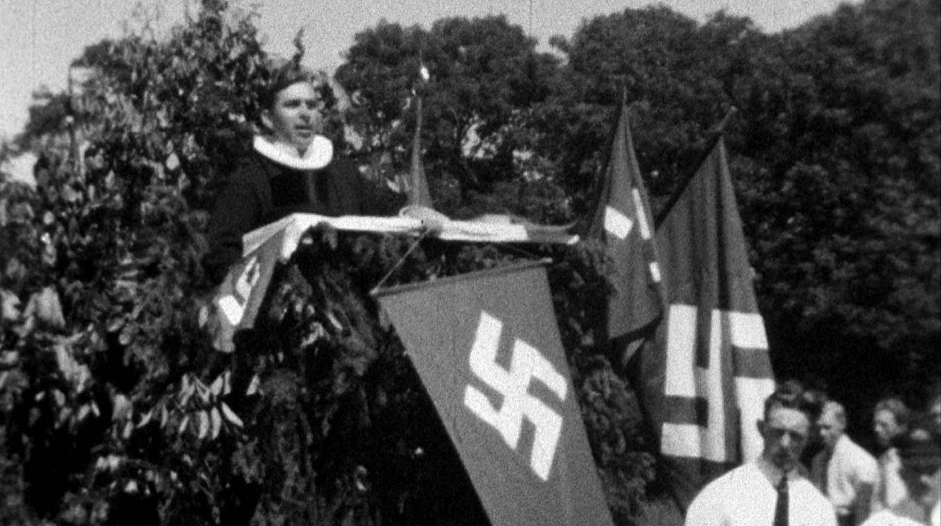 Danish priest and Nazi politician Anders Malling (1896-1981)